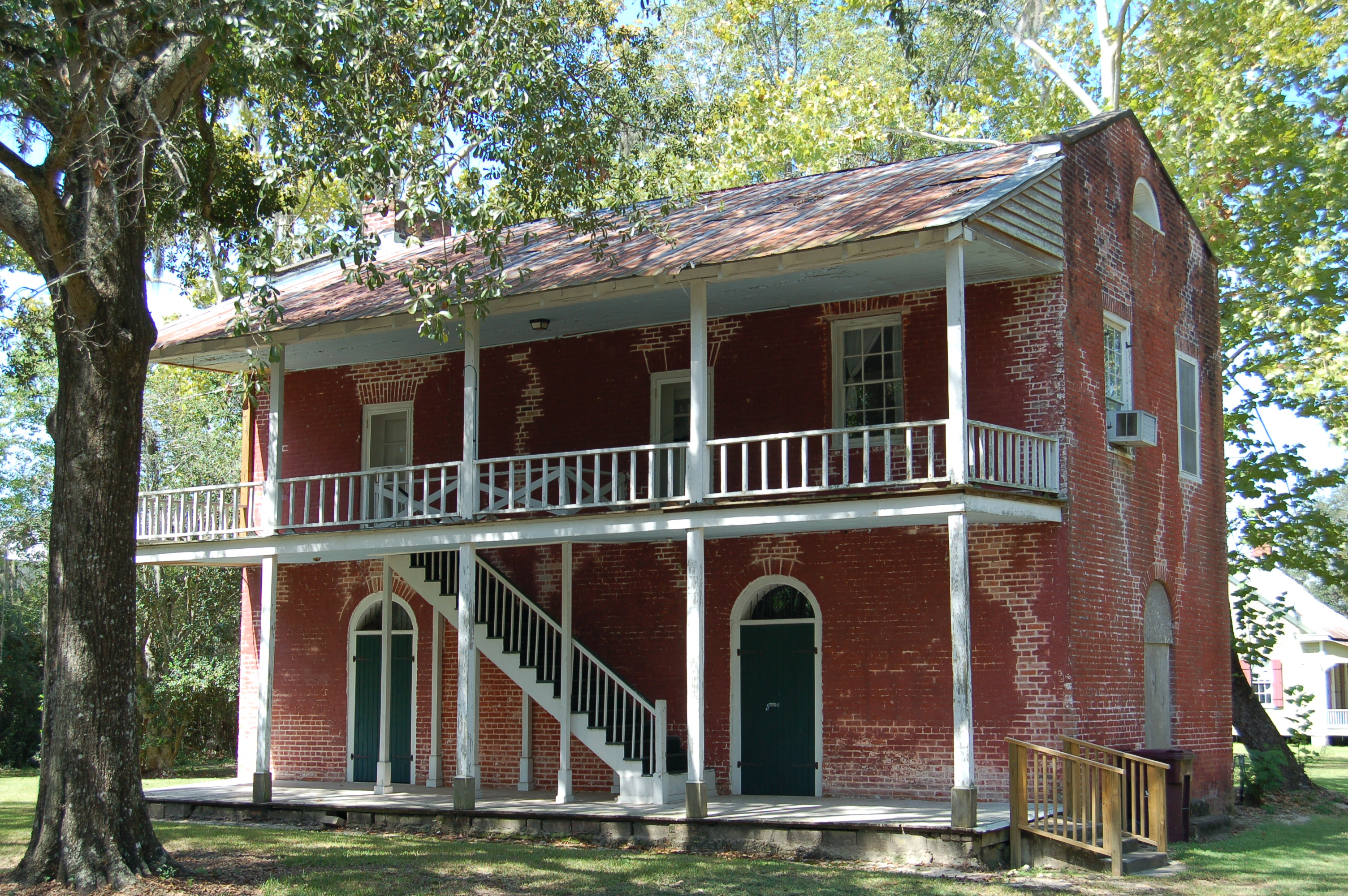 Old Livingston Parish Courthouse